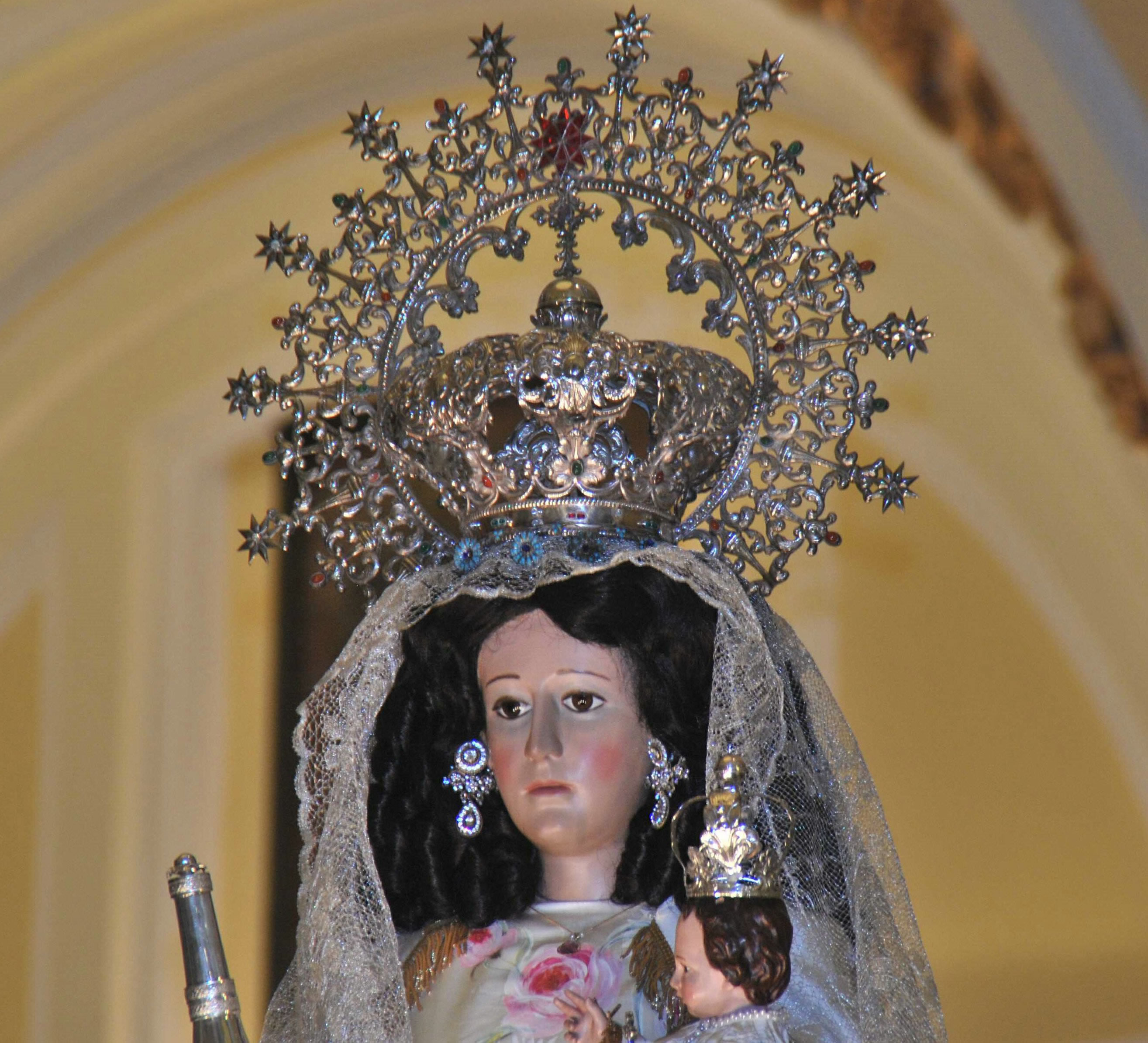 Photographs of the Image of the Virgen de la Antigua de Guadalajara.